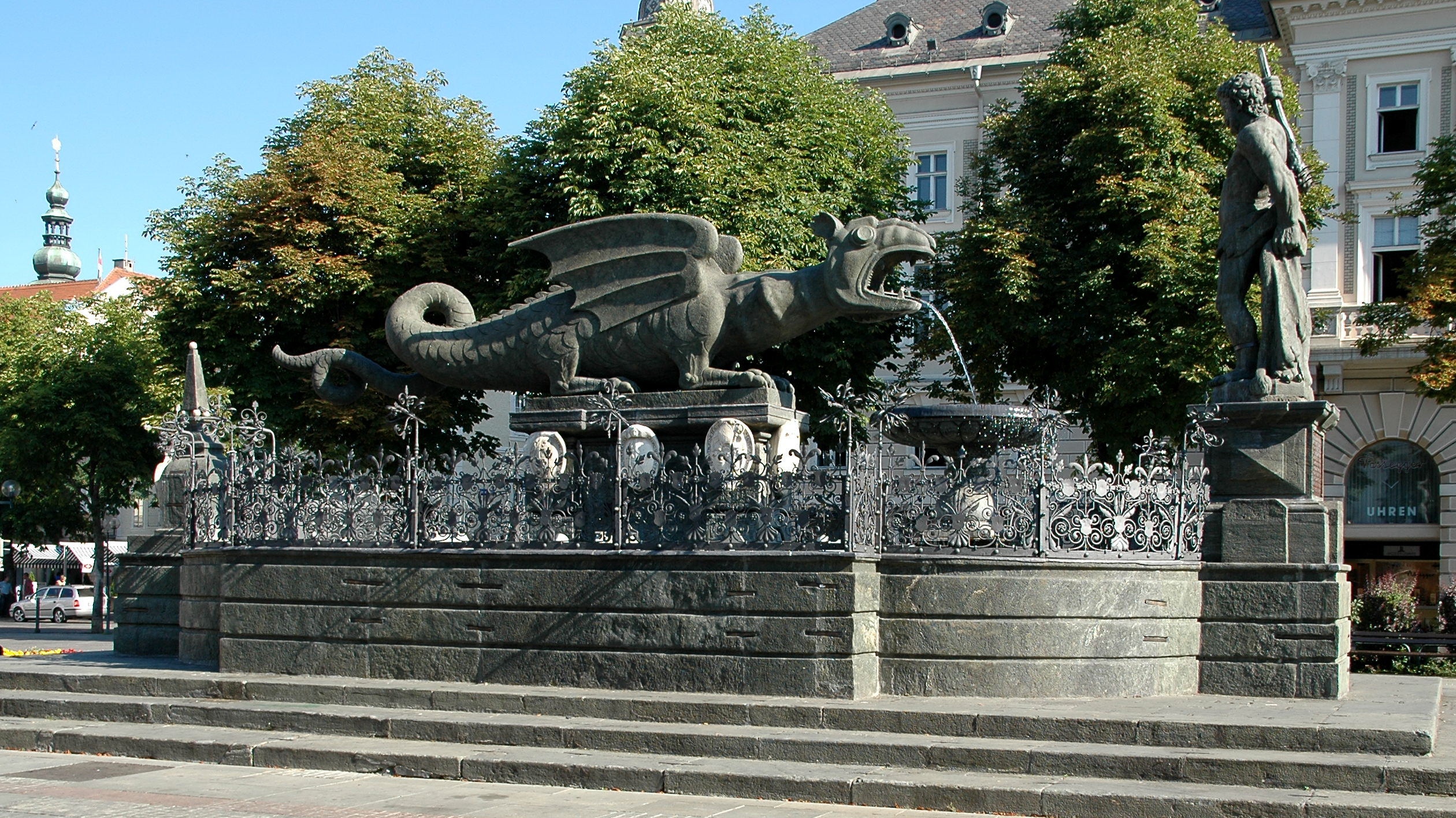 Monument Lindwurm and Hercules on the Neuer Platz, the town´s landmark in Carinthia´s capital Klagenfurt, Austria